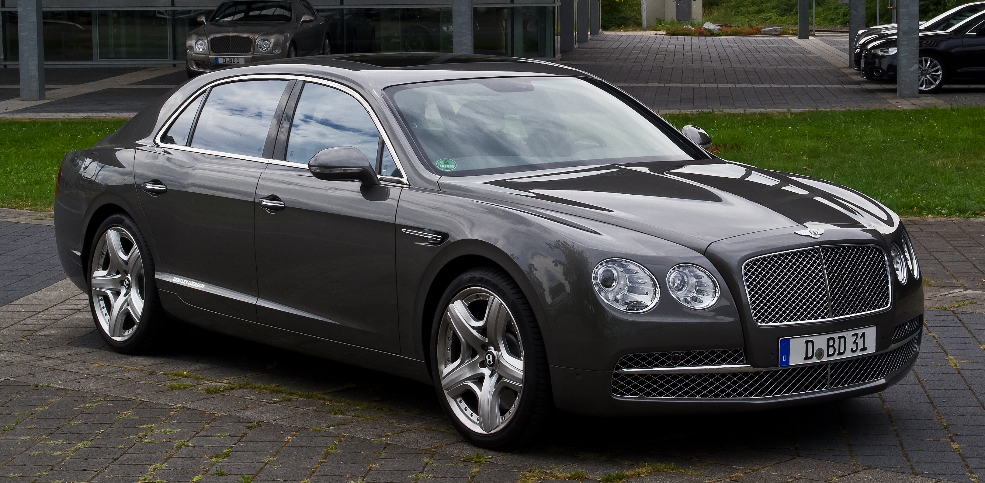 Bentley Flying Spur